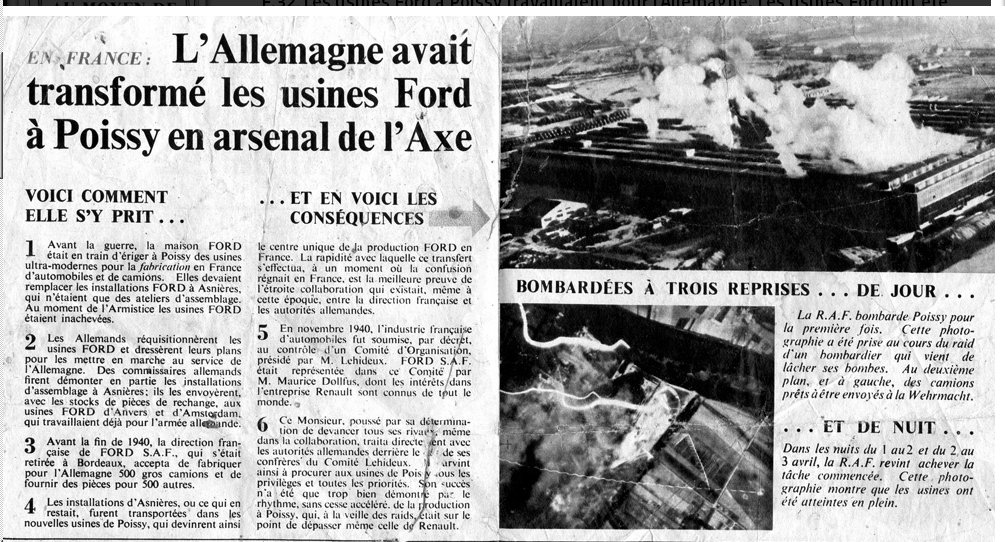 British propaganda newspaper showing the Ford works in Poissy, France being bombed. This is cropped from page 2 of the paper in the link shown, using GIMP.